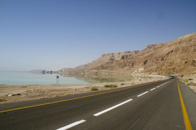 For more pictures and videos, please visit here. Road beside the Dead Sea, with Ein Bobek in the background.